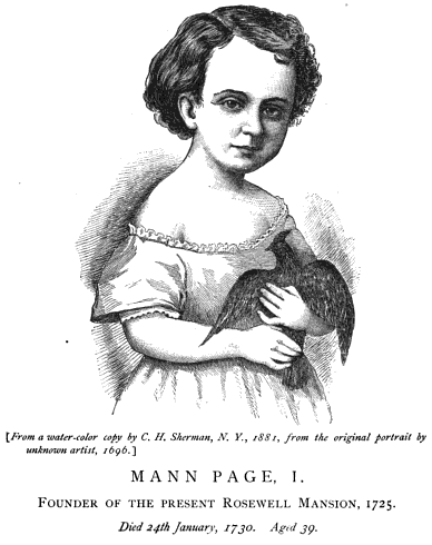 Mann Page I, Founder of the Present Rosewell Mansion, 1725. Died 24th January, 1730. Aged 39.